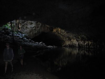 Tunnel Creek, West Kimberley region, Western Australia